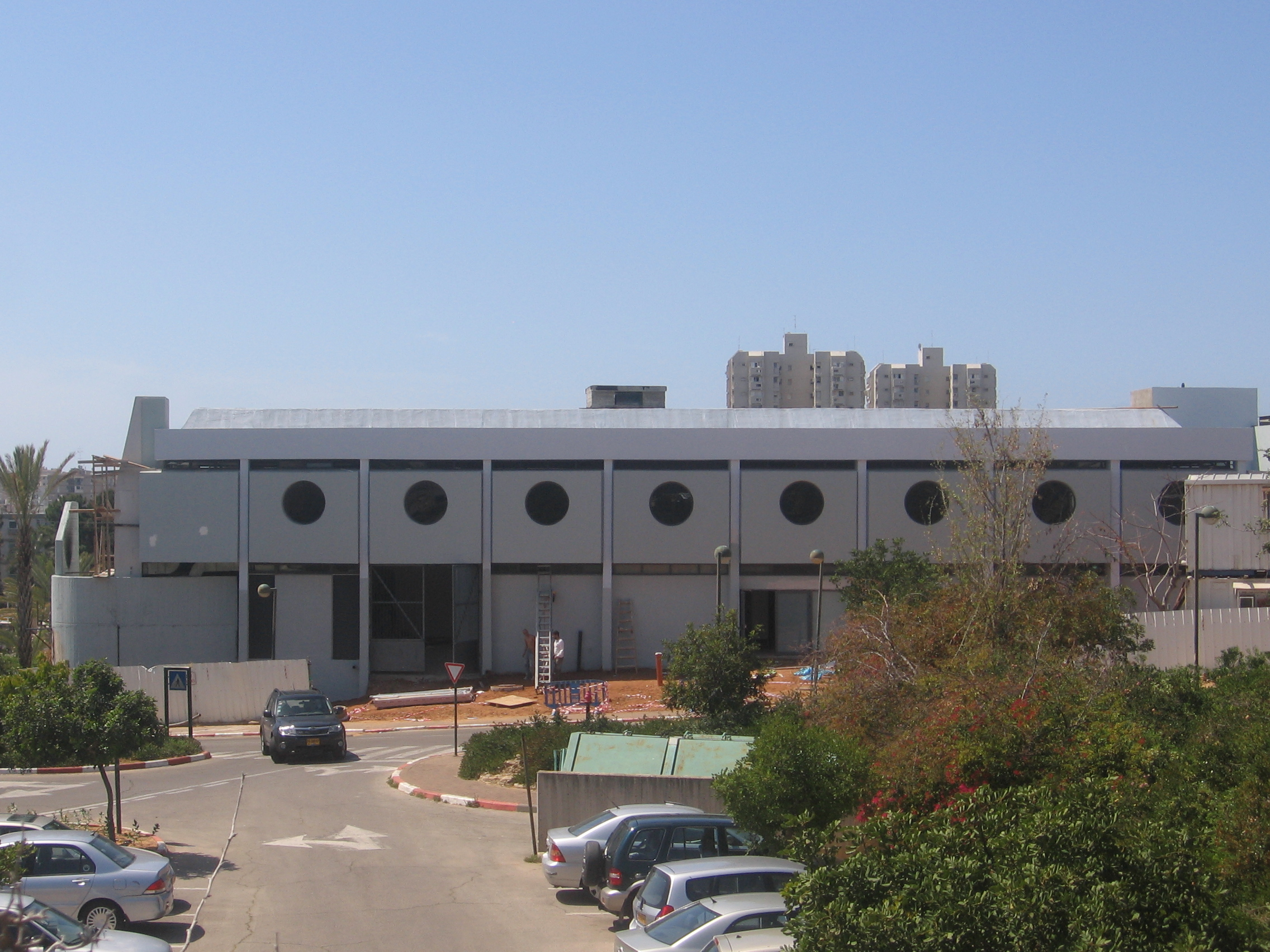 Elit sports center in Tel Aviv University (TAU).